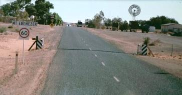 Mt Ebenezer in April 1986